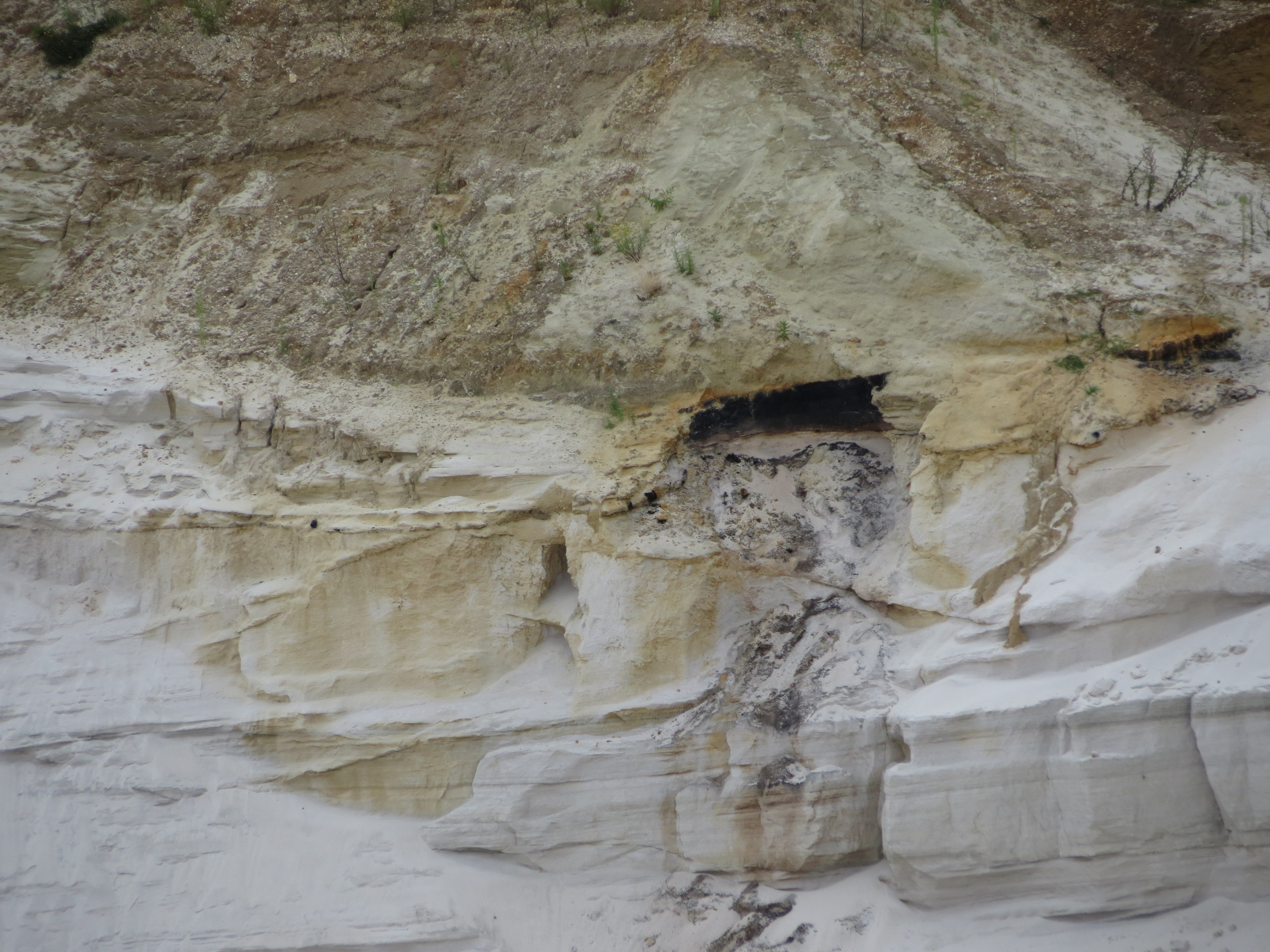 Lignite seam in Quartz sand quarry, Heerenweg West, Heerlen, The Netherlands